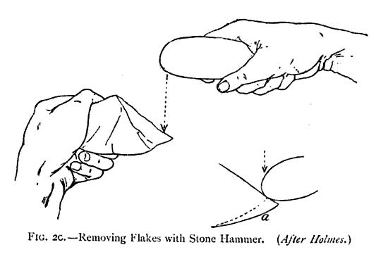 19th century knowledge stone tools removing flakes with stone hammer